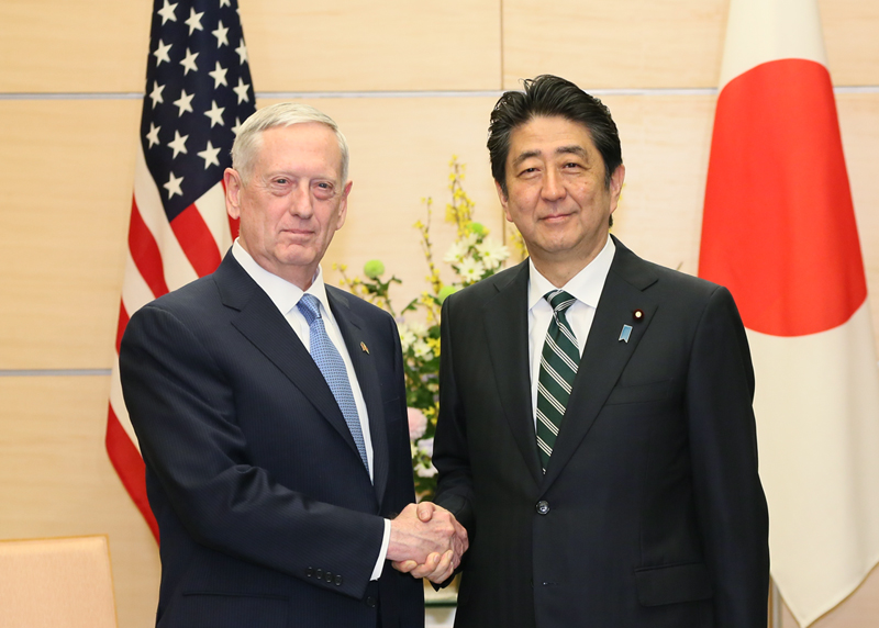 James Mattis, Secretary of Defense, met Shinzō Abe, Prime Minister, at the Prime Minister's Official Residence in Chiyoda Ward, Tōkyō Metropolis on February 3, 2017.